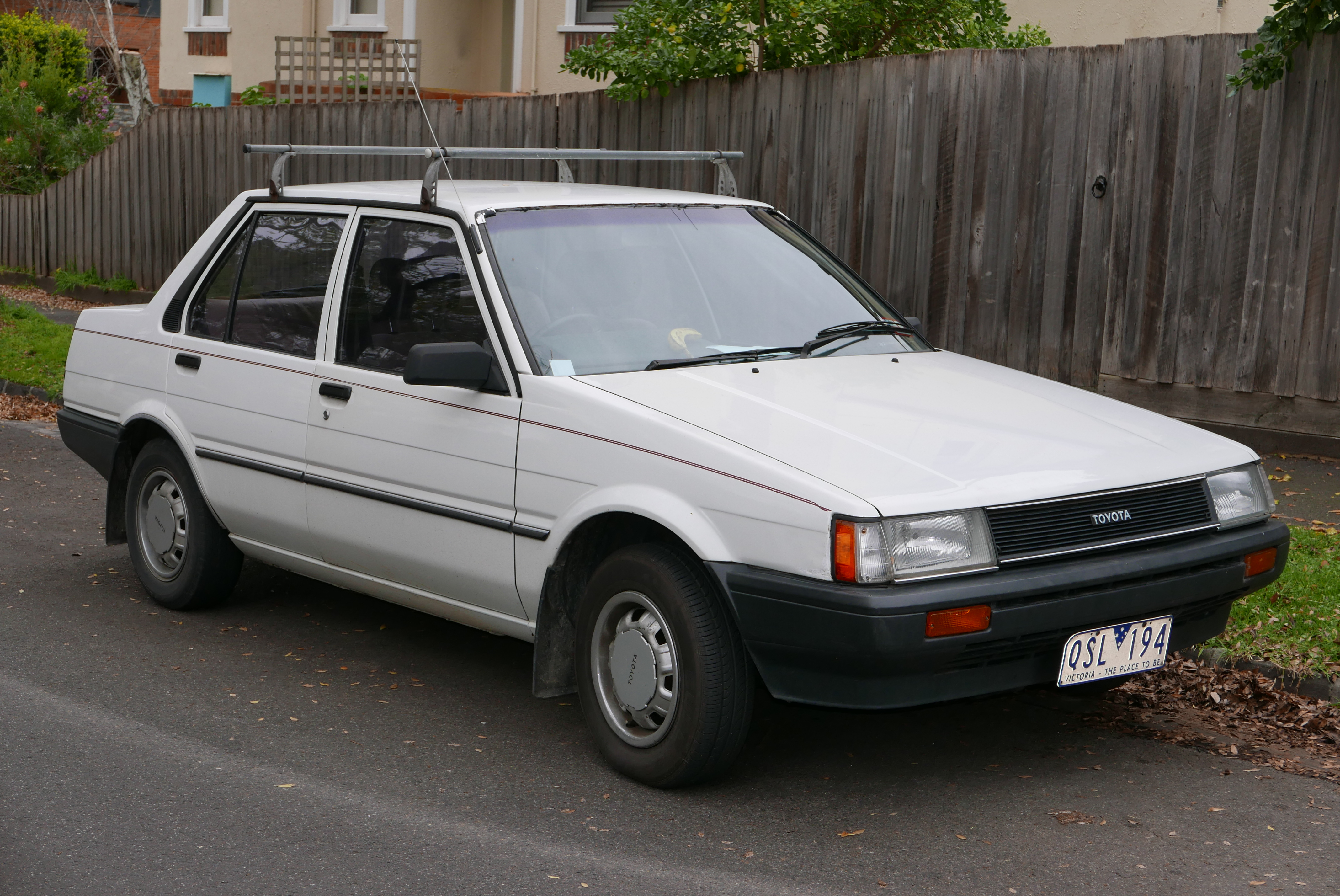 1985 Toyota Corolla (AE80) S sedan. Photographed in Kew, Victoria, Australia. Vehicle registration enquiry results Jurisdiction Victoria Registration QSL194 Chassis code AE809701289 Engine code 2A5253099 Compliance date 1985-01 Year of manufacture 1985